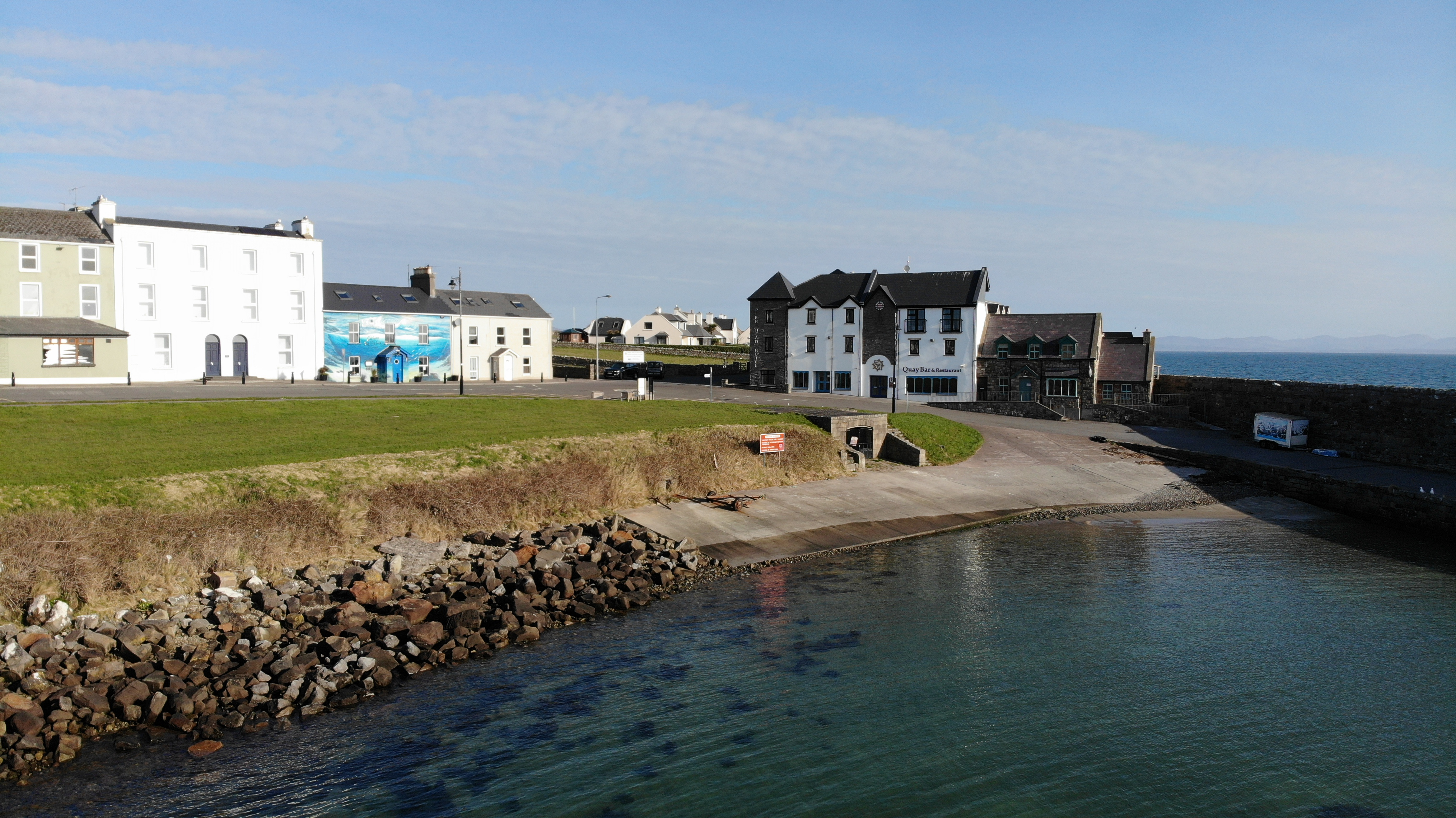 Mullaghmore Harbour March 2020